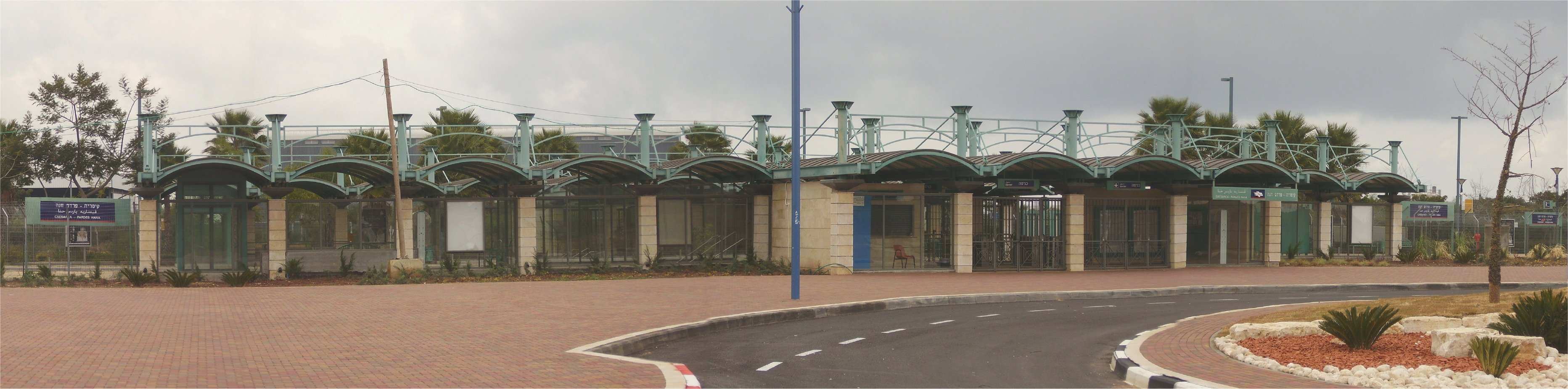 The east entrance to the Qesaryya-Pardes Hanna train station, Israel